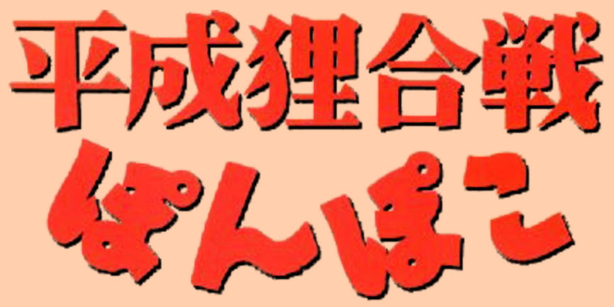 Heisei tanuki gassen ponpoko title, from Japanese DVD disc.